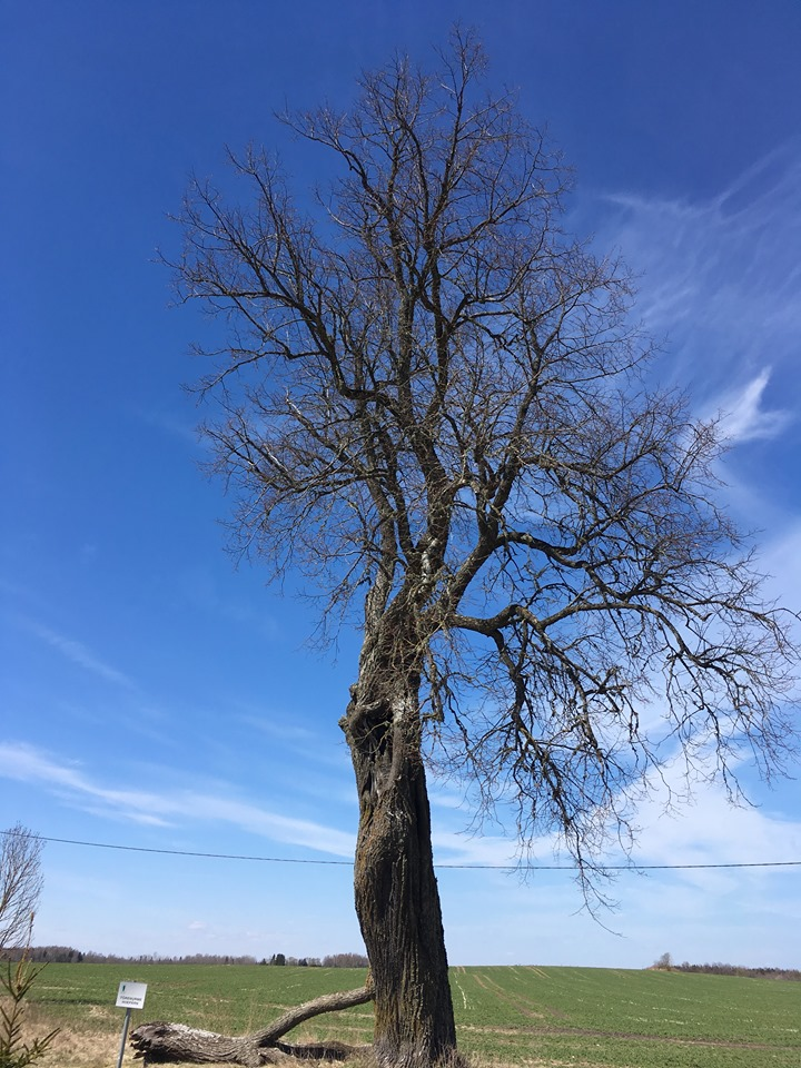 The sacred linden tree in Tõrenurme village, Põltsamaa parish, Estonia. National monument no. 9365